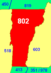 Map showing Vermont's one area code in red, with surrounding area codes.